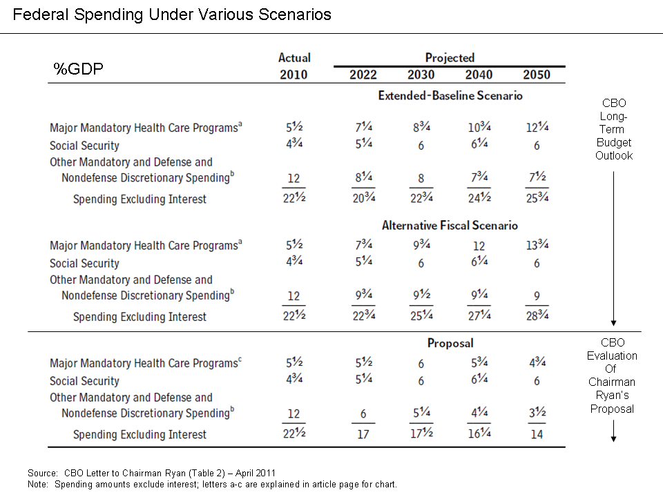 Federal spending as % GDP under CBO and Ryan Scenarios Understanding the Chart The CBO provided an analysis to Chairman Paul Ryan of the House Committee on the Budget of his budget proposal in April 2011.[1] The chart captions are listed below, excerpted directly from the letter: "Notes: The proposal that CBO analyzed is as specified by Chairman Paul Ryan and his staff. The extended-baseline and alternative fiscal scenarios are as described in Congressional Budget Office, The Long-Term Budget Outlook (June 2010; revised August 2010). Components may not add up to totals because of rounding. a. Includes Medicare, Medicaid, exchange subsidies, and the Children's Health Insurance Program (CHIP). b. Incorporates collections of premiums paid by Medicare beneficiaries. c. Includes Medicare and Medicaid as structured under the proposal and CHIP. There are no exchange subsidies under the proposal." The National Commission on Fiscal Responsibility and Reform separately described the CBO long-term scenarios, as listed below: "The Extended-Baseline Scenario generally assumes continuation of current law. The Alternative Fiscal Scenario incorporates several changes to current law considered likely to happen, including the renewal of the 2001/2003 tax cuts on income below $250,000 per year, continued Alternative Minimum Tax (AMT) patches, the continuation of the estate tax at 2009 levels, and continued Medicare “Doc Fixes.” The Alternative Fiscal Scenario also assumes discretionary spending grows with Gross Domestic Product (GDP) rather than to inflation over the next decade, that revenue does not increase as a percent of GDP after 2020, and that certain cost-reducing measures in the health reform legislation are unsuccessful in slowing cost growth after 2020."[2]